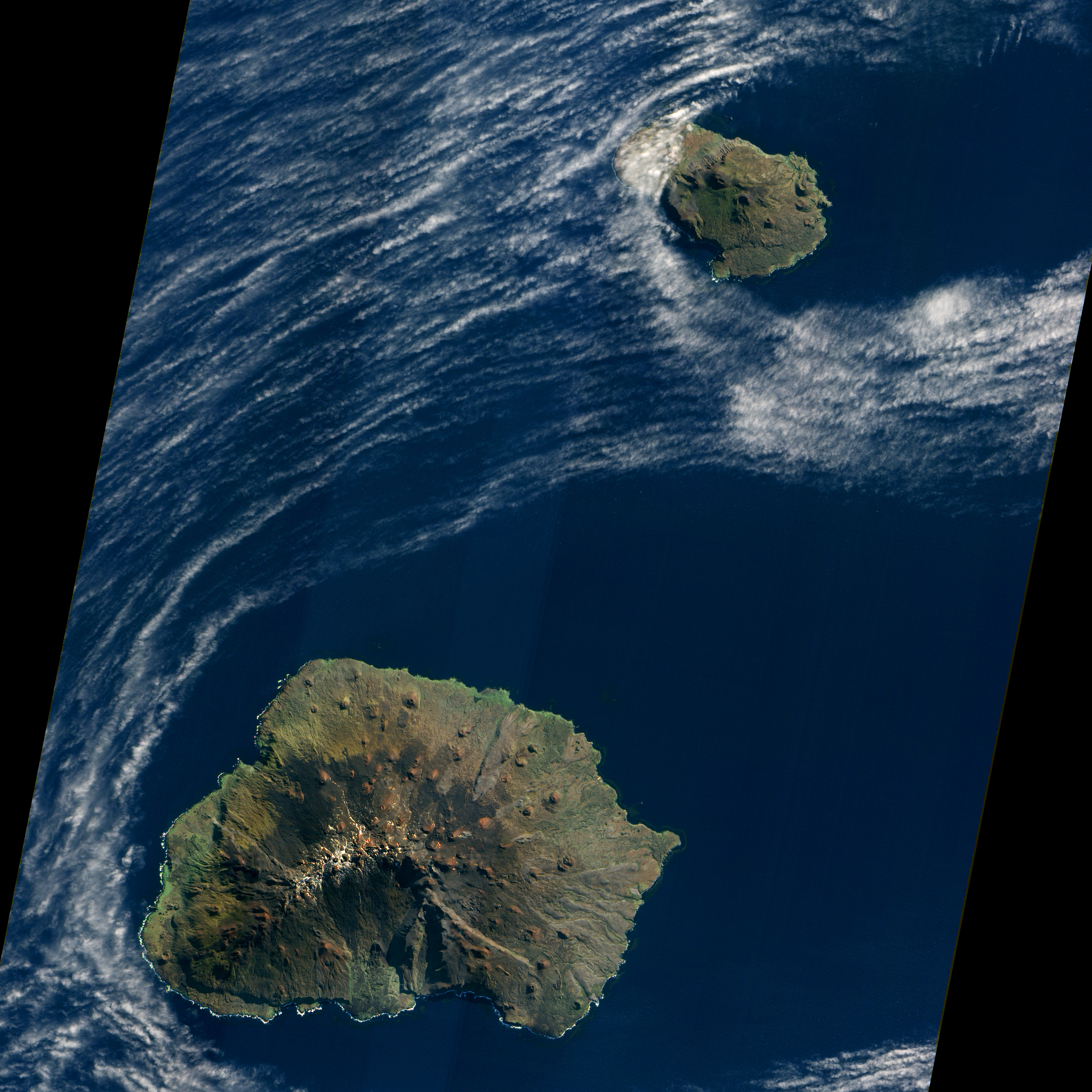 Satellite image of South Africa's Prince Edward Islands. Prince Edward Island is the smaller island near the top; Marion Island is the larger island below. Original NASA caption, for a version cropped to show just Marion Island: "A dusting of ice graced the summit of Marion Island in early May 2009 as waves breaking against the island’s shore formed a broken perimeter of white. Like its smaller neighbor, Prince Edward Island, Marion Island is volcanic, rising above the waves of the Indian Ocean off the southern coast of Africa. Prince Edward and Marion are part of South Africa’s Western Cape Province. (Both islands appear in the large image.) "The Advanced Land Imager (ALI) on NASA’s Earth Observing-1 (EO-1) satellite acquired this natural-color image on May 5, 2009. Sunlight illuminates the northern slopes of the volcanic island, leaving southern slopes in shadow. More than 100 small, reddish volcanic cones dot the island, some of the most conspicuous in the north and east. The island reaches its highest elevation, 1,230 meters (4,040 feet), near the center. Vegetation is generally sparse on Marion Island. Lichens live near the summit, and mosses and ferns grow elsewhere on the boggy surface, but trees don’t grow on the island. "Occurring at the juncture between the African Continental Plate and the Antarctic Plate, Marion Island has been volcanically active for 18,000 years. The first historical eruption was recorded in November 1980 when researchers recorded two new volcanic hills and three lava flows. Researchers observed another small eruption in 2004. "Besides volcanic cones, Marion Island is home to Marion Base, part of the South African National Antarctic Programme. Focusing on biological, environmental, and meteorological research, the base is situated on the island’s northeastern coast."